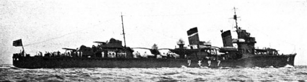 This pre-1945 image is believed to be copyright-free, as it is a Japanese photograph older than 50 years. If copyright exists in this image, use here is asserted to be fair use. (See Image:Fubuki.jpg) Found at Japan 101 According to Japanese Copyright Law (June 1, 2018 grant) the copyright on this work has expired and is as such public domain. According to articles 51, 52, 53 and 57 of the copyright laws of Japan, under the jurisdiction of the Government of Japan works enter the public domain 50 years after the death of the creator (there being multiple creators, the creator who dies last) or 50 years after publication for anonymous or pseudonymous authors or for works whose copyright holder is an organization. Note: The enforcement of the revised Copyright Act on December 30, 2018 extended the copyright term of works whose copyright was valid on that day to 70 years. Do not use this template for works of the copyright holders who died after 1967. Use PD-Japan-oldphoto for photos published before December 31, 1956, and PD-Japan-film for films produced prior to 1953. Public domain works must be out of copyright in both the United States and in the source country of the work in order to be hosted on the Commons. The file must have an additional copyright tag indicating the copyright status in the United States. See also Copyright rules by territory.